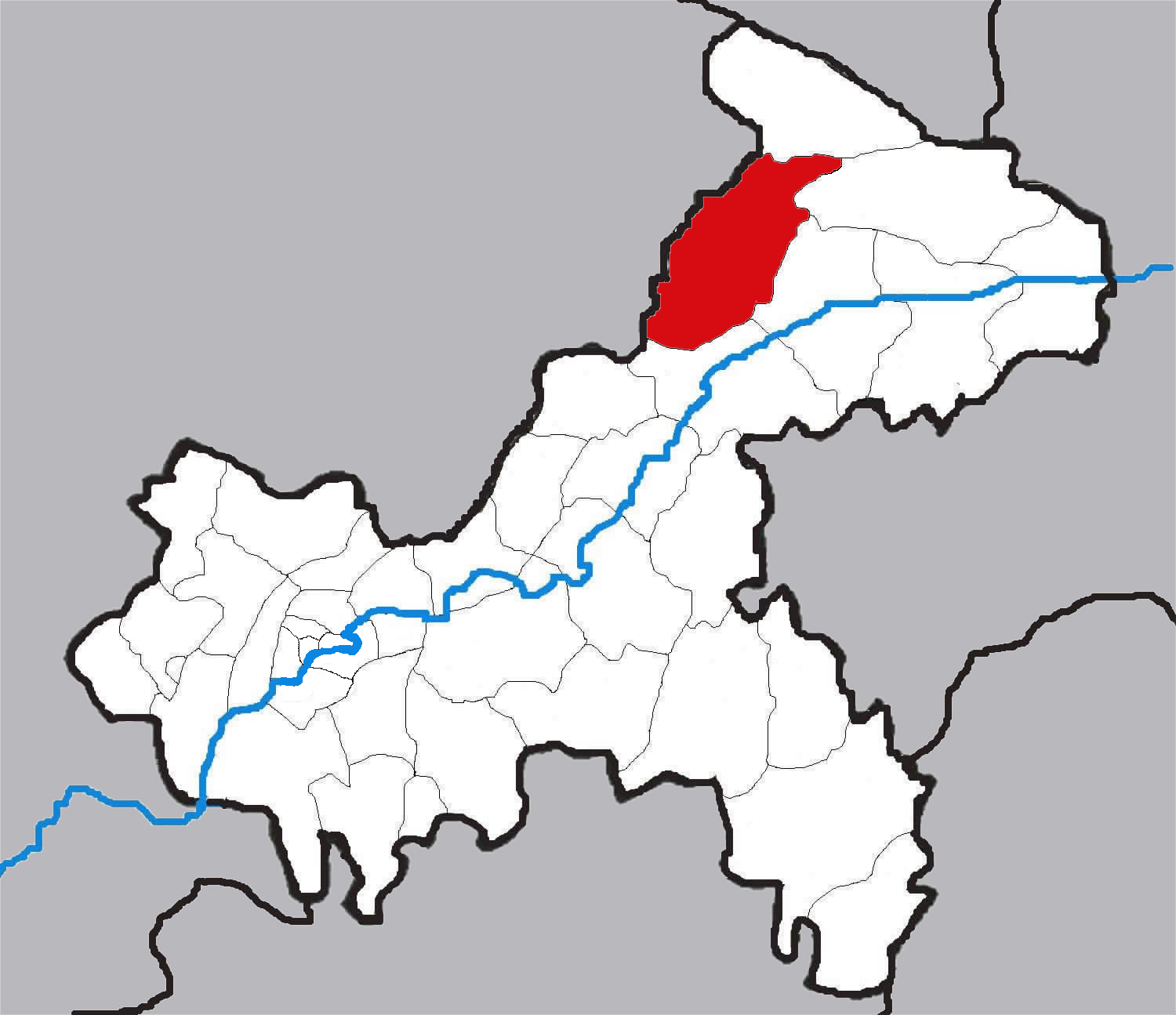 Administration maps of Chongqing, China